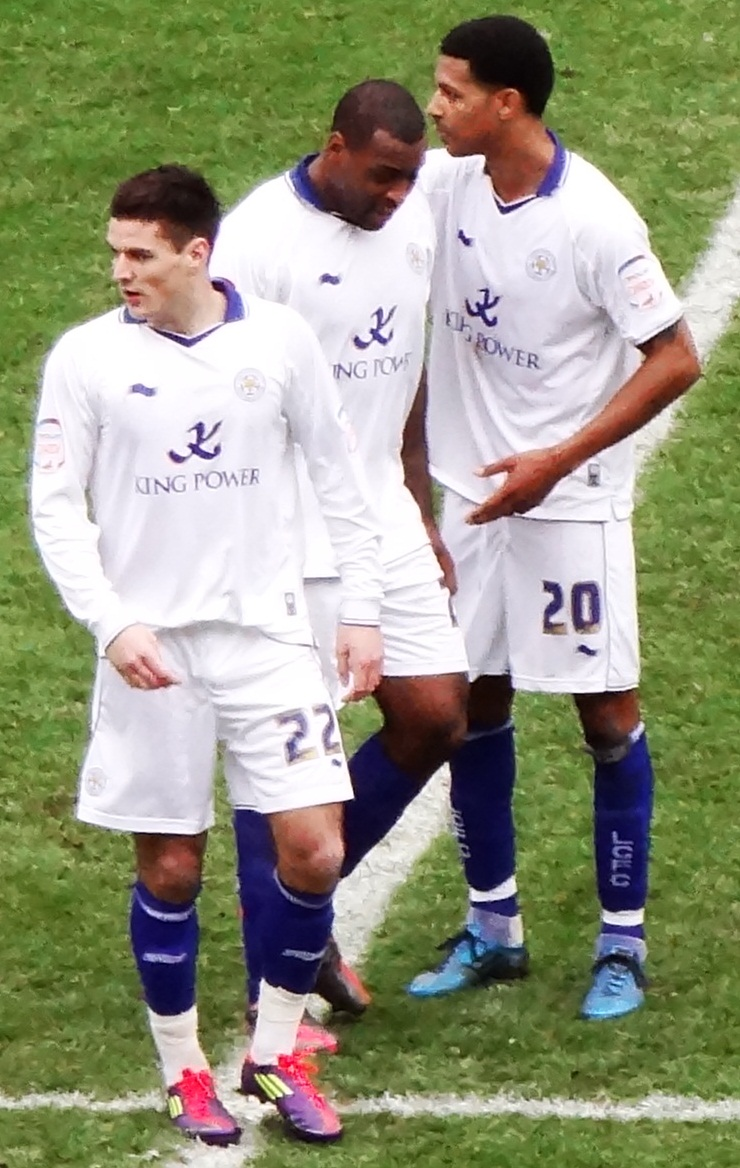 (Image cropped from original at Flickr)